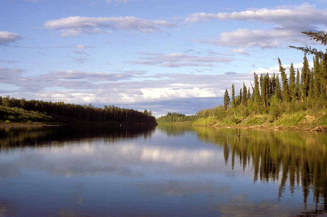 Nowitna River in Summer, Nowitna National Wildlife Refuge